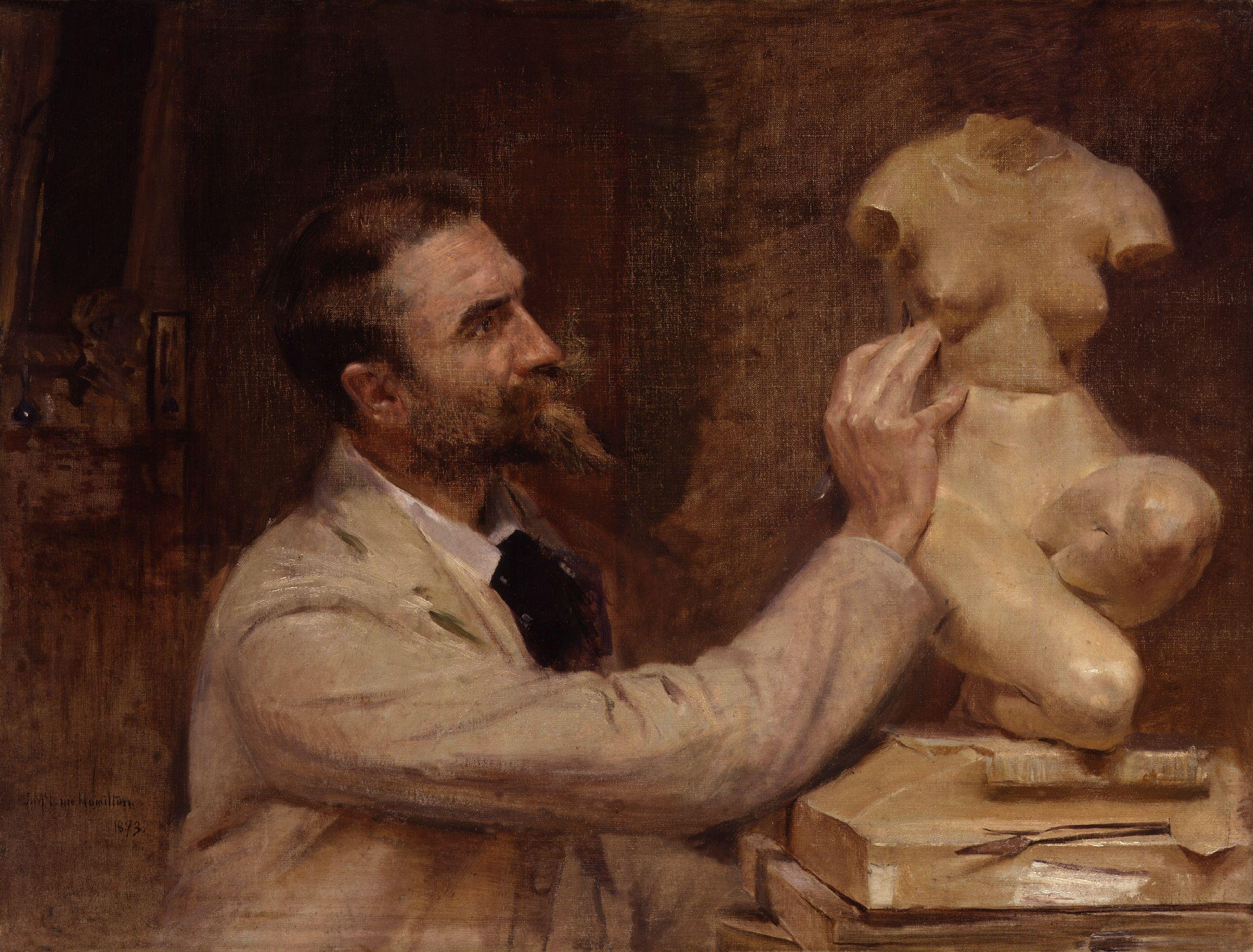 work given to the National Portrait Gallery, London in 1920. Based on its pose, the statue on which Ford is working appears to be Applause (with its arms and head still to be added), completed in bronze in 1893 (additional information by User:Lee M, 8 September 2011). All images in this batch have been confirmed as author died before 1939 according to the official death date listed by the NPG.